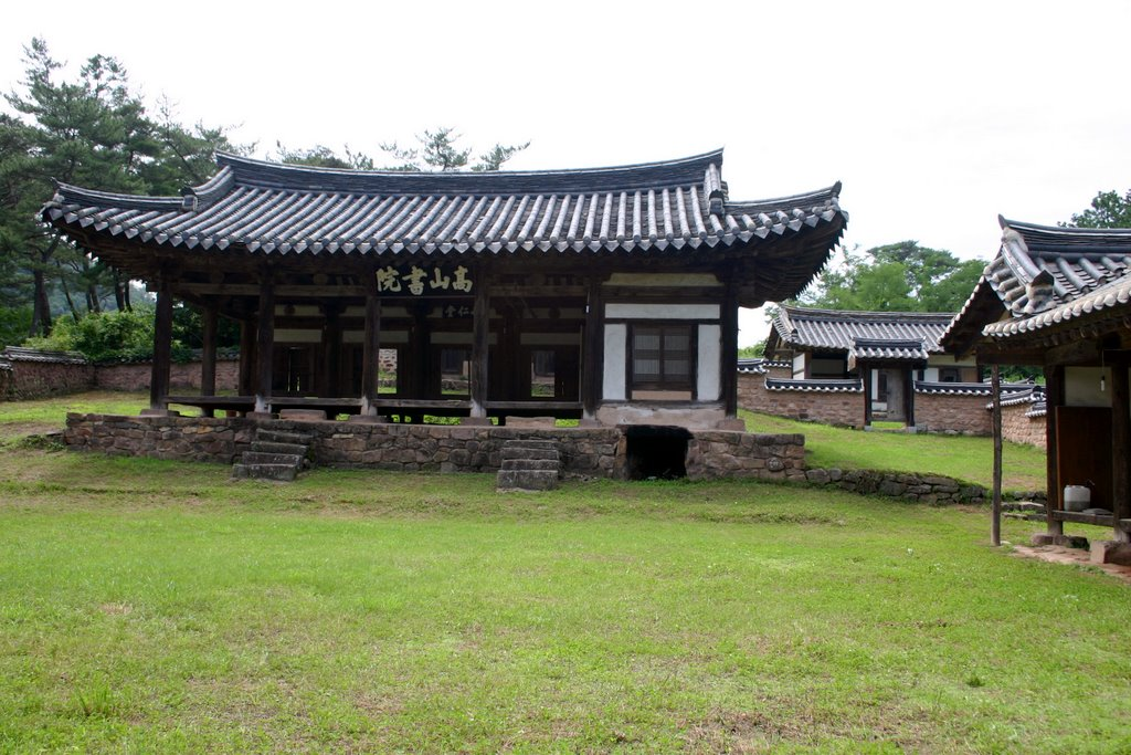 Gosan Seowon in Andong, Gyeongsangbuk-do, South Korea.